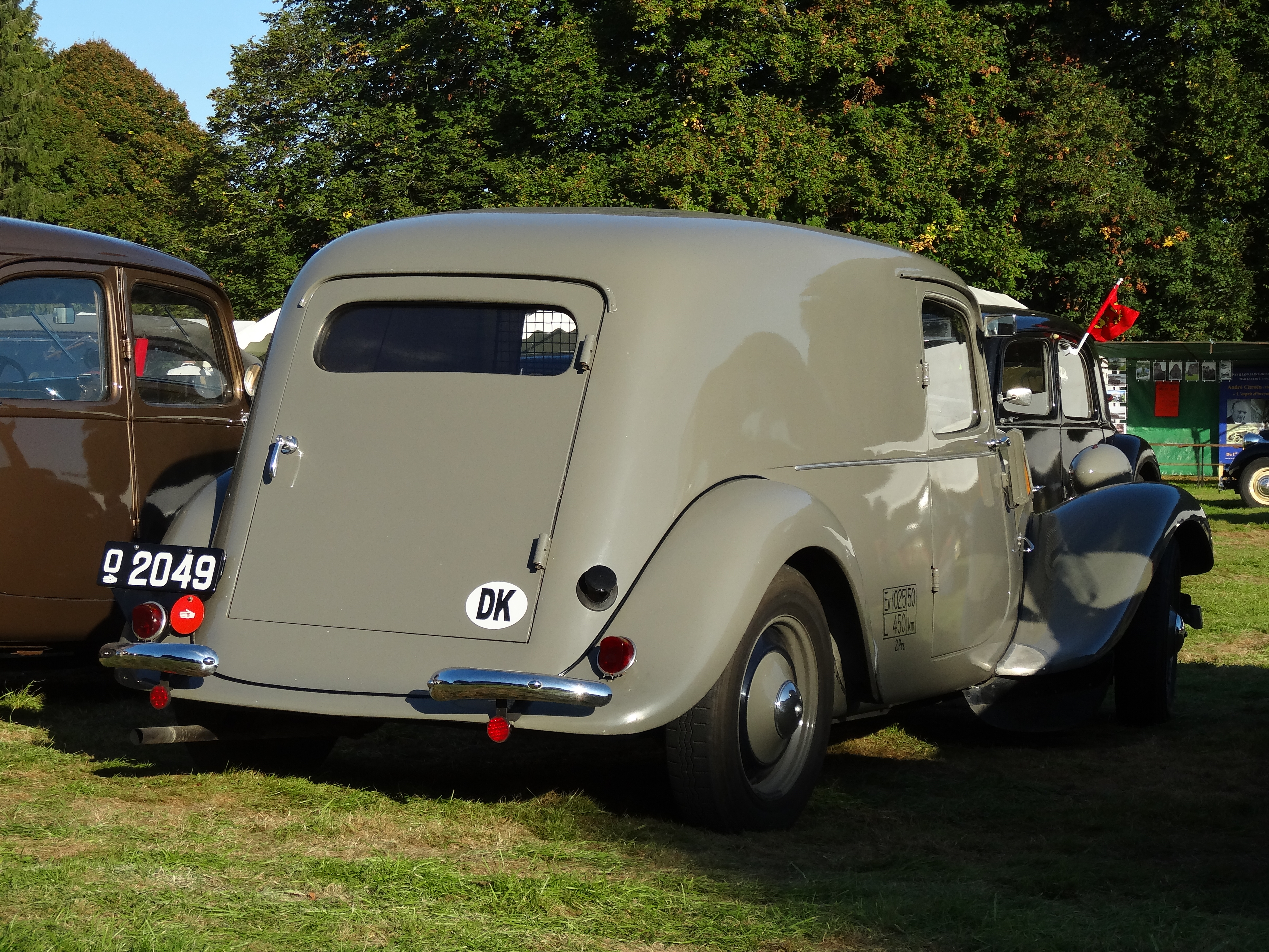 Citroën Traction Avant utility